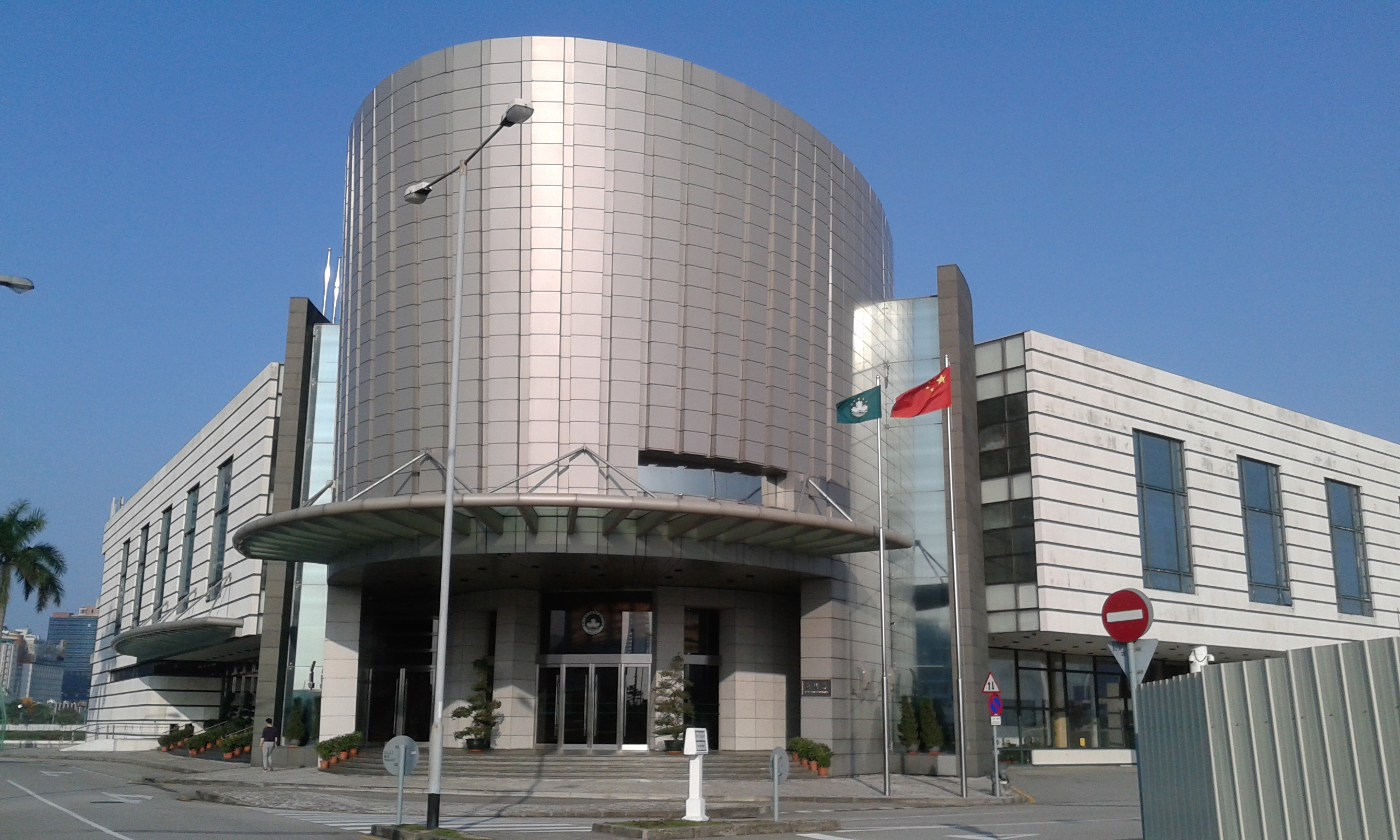 Assembleia Legislativa